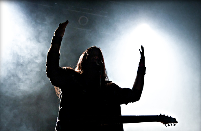 Nicolas Angel Racco